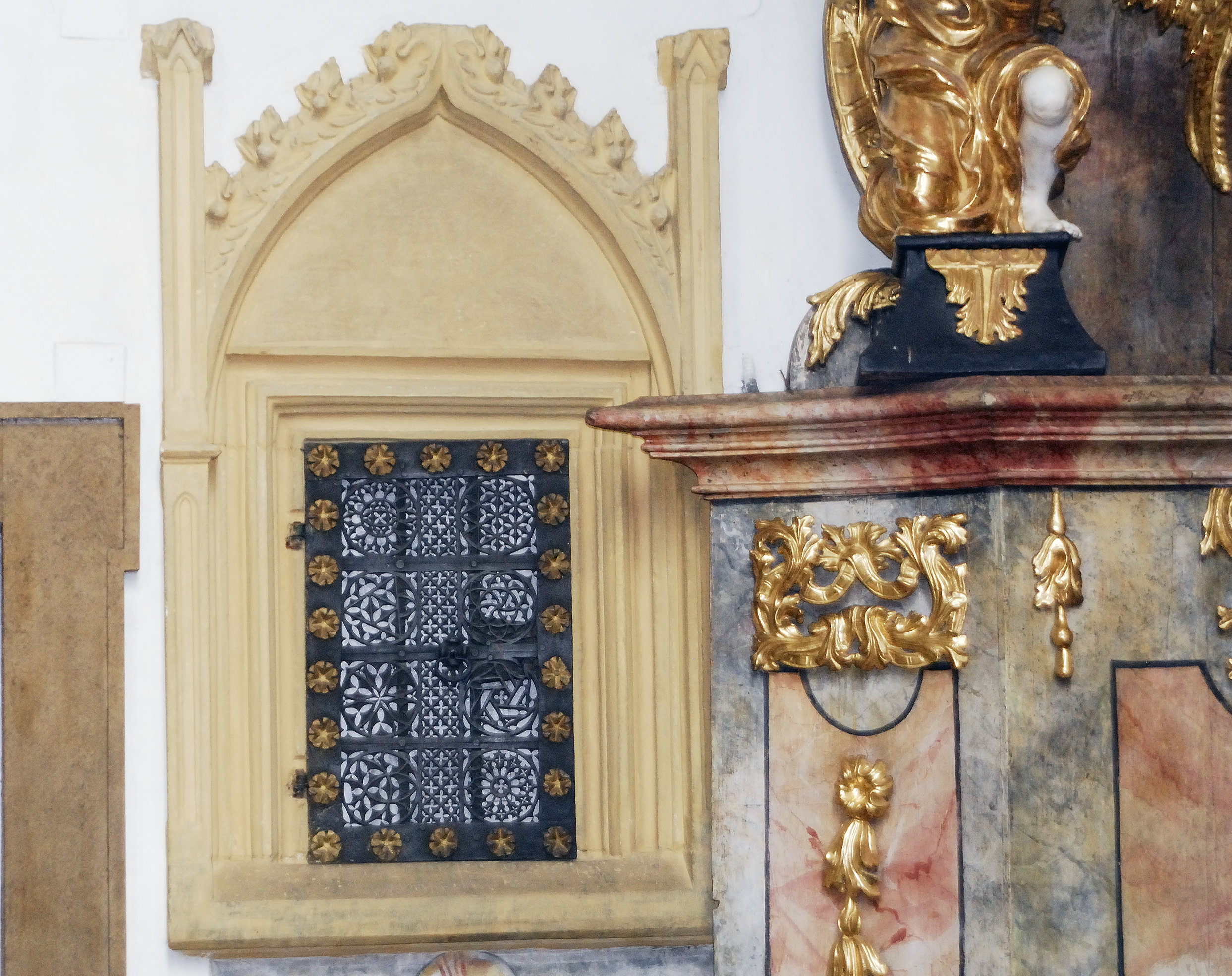 wrought iron grid (1480) from small sacrament-cottage parish church Trofaiach